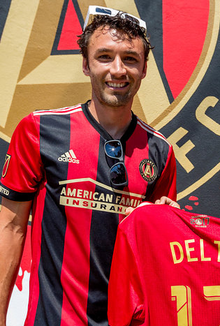 during the Delta and Atlanta United Wallscape Unveiling in Decatur, Georgia, Monday, August 21, 2017 ©Rank Studios